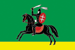 Flag of municipal formations Nevelsky rayon (Pskov oblast)